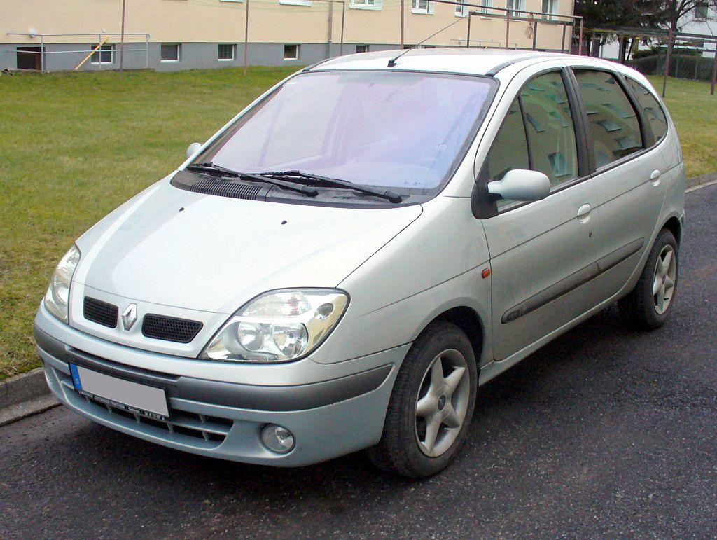 Renault Scénic I Phase II